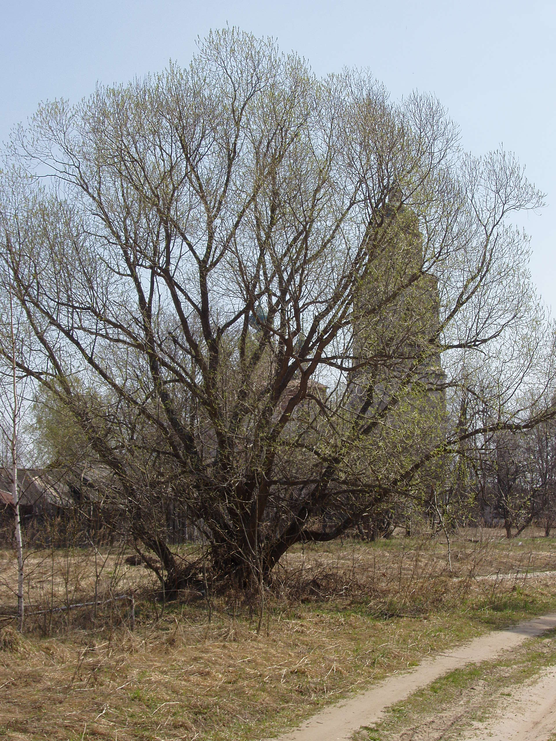 Salix alba, habitus. Russia, Ivanovo oblast, Savino district